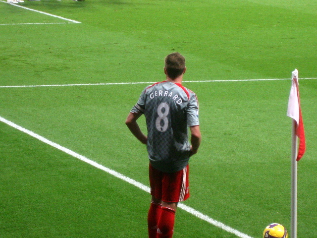 Liverpool's captain Steven Gerrard.